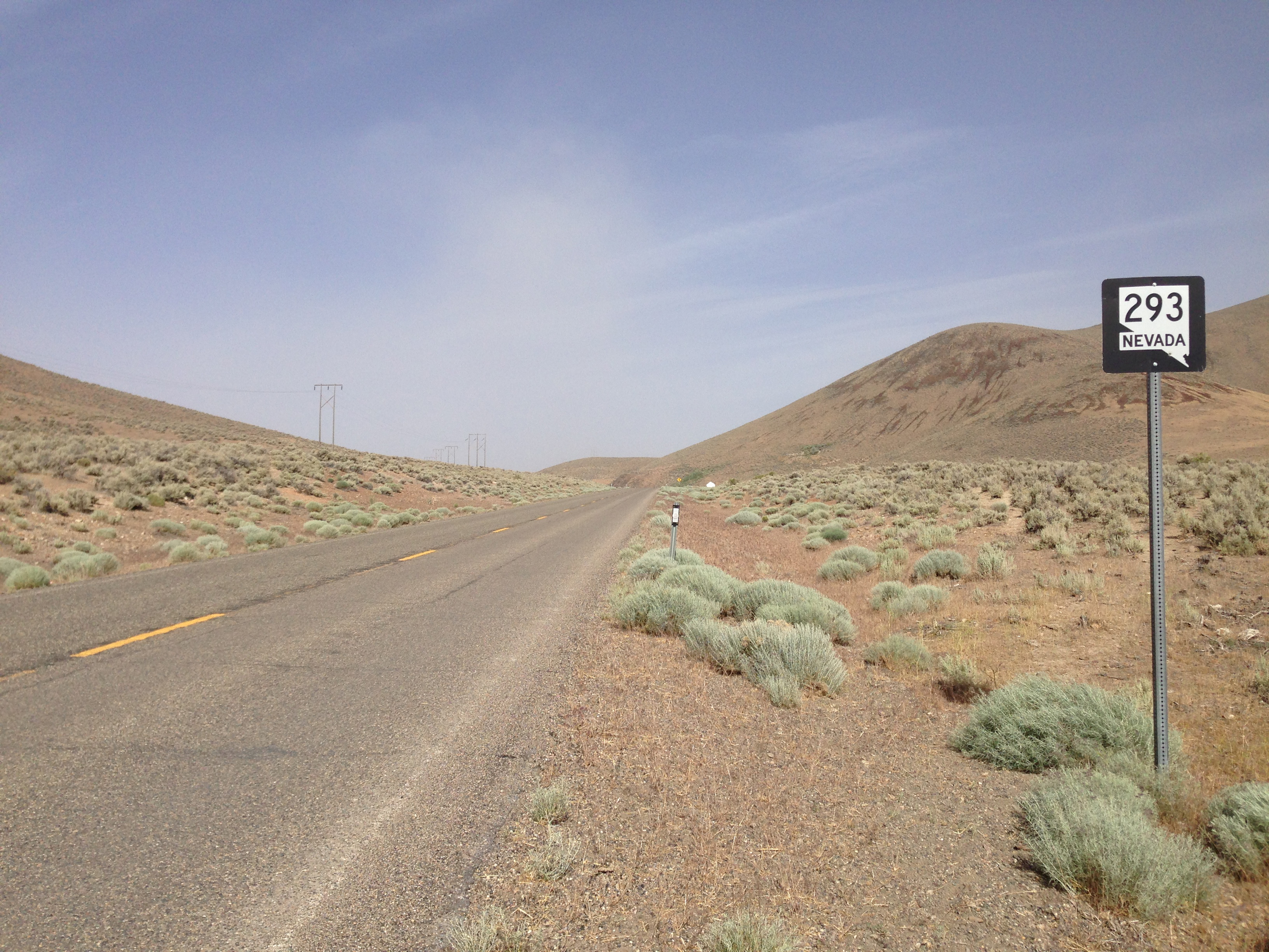 First reassurance sign along eastbound Nevada State Route 293 (Kings River Road) in Kings River Valley, Nevada